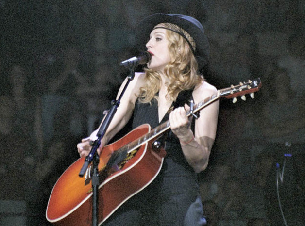 concert